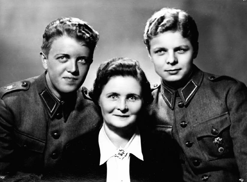 Photograph of the Finnish designers Pentti Sarpaneva (1925–1978) and Timo Sarpaneva (1926–2006) in military uniform with their mother Martta.